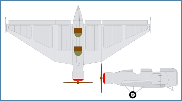 Lippisch Delta 4b